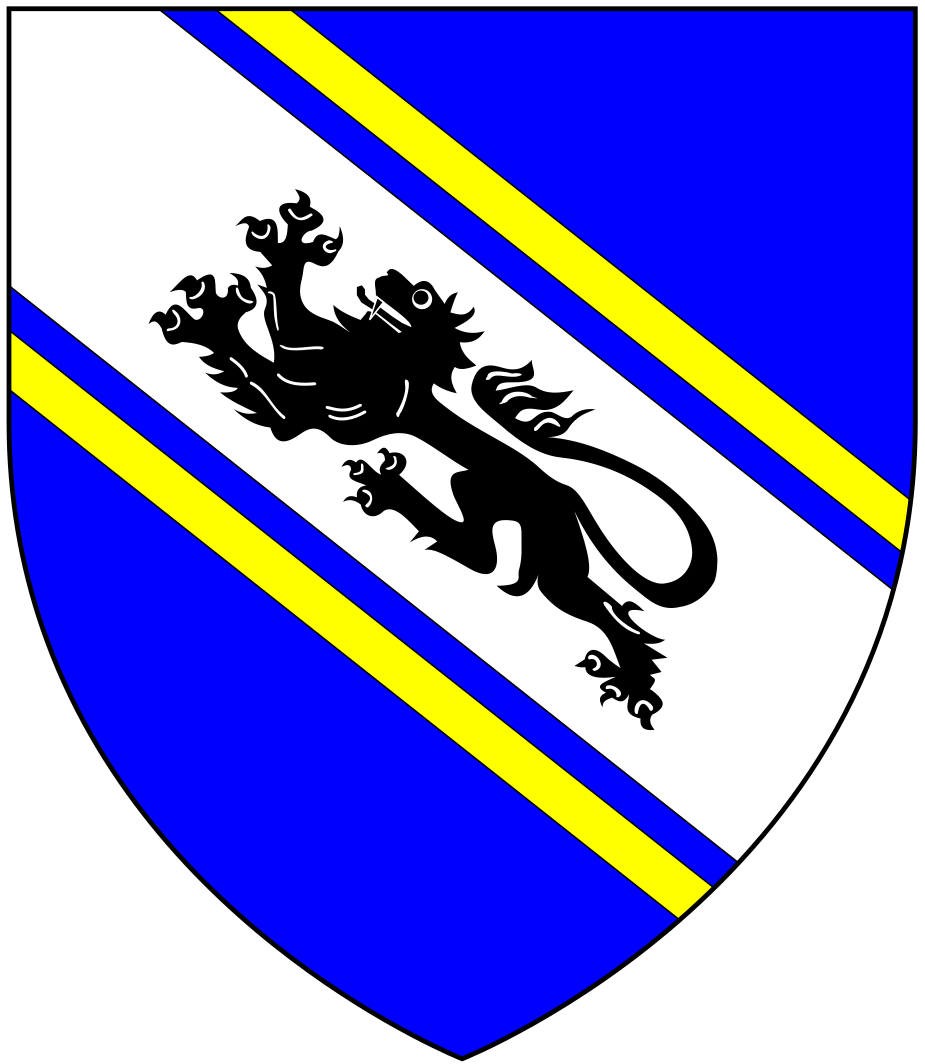 Arms of Tothill of Peamore in the parish of Exminster, Devon and of the City of Exeter: Azure, on a bend argent cotised or a lion passant sable (Vivian, Lt.Col. J.L., (Ed.) The Visitation of the County of Devon: Comprising the Heralds' Visitations of 1531, 1564 & 1620, Exeter, 1895, p.729, pedigree of Tothill of Peamore; Pole, Sir William (d.1635), Collections Towards a Description of the County of Devon, Sir John-William de la Pole (ed.), London, 1791, p.504, arms of Tothill of Peamore, but given with bend or cotised argent. The monument to Grace Tothill (d.1623) in St Martin's Church, Exminster (possibly resored/repainted) shows no bend at all, the lion being shown in bend on a field azure cotised or.